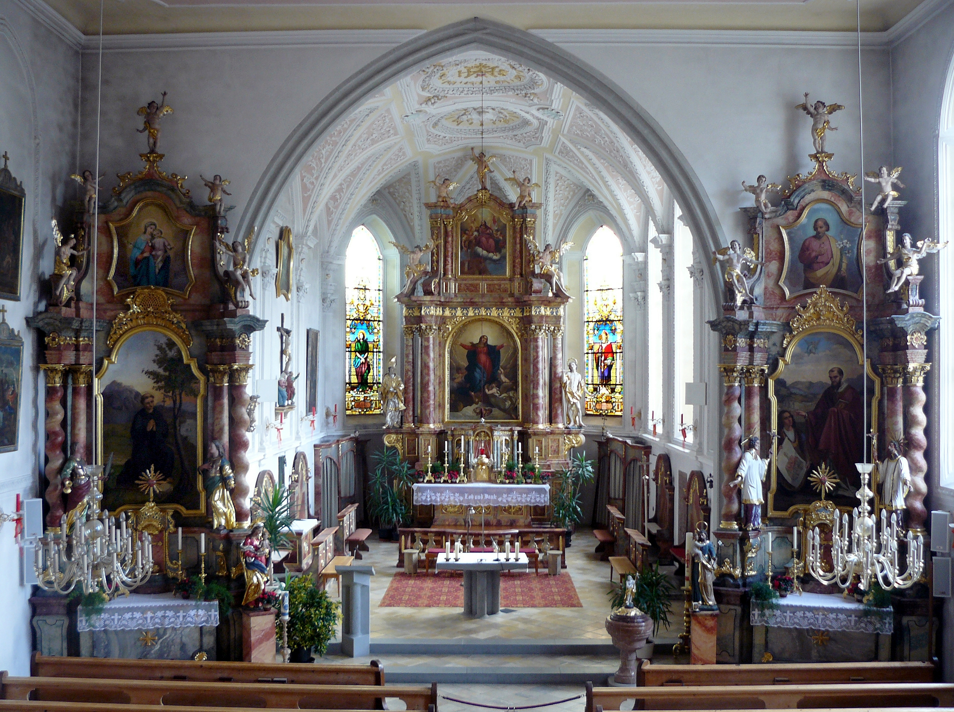 St Maria and Florian, Schwangau-Waltenhofen